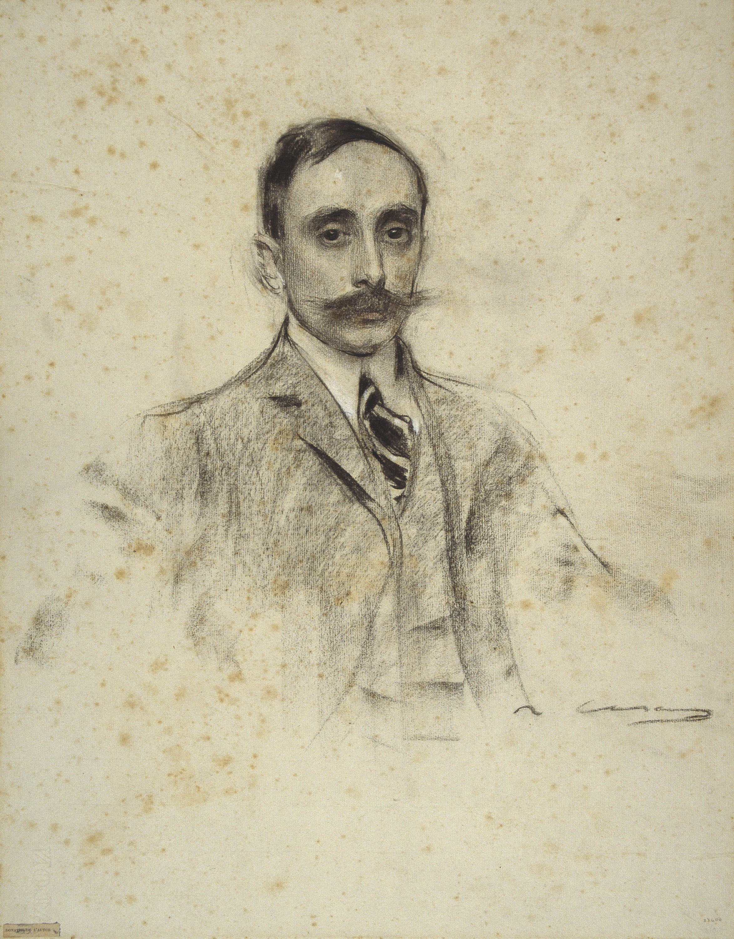 Portrait by Ramon Casas conserved at MNAC in Barcelona.